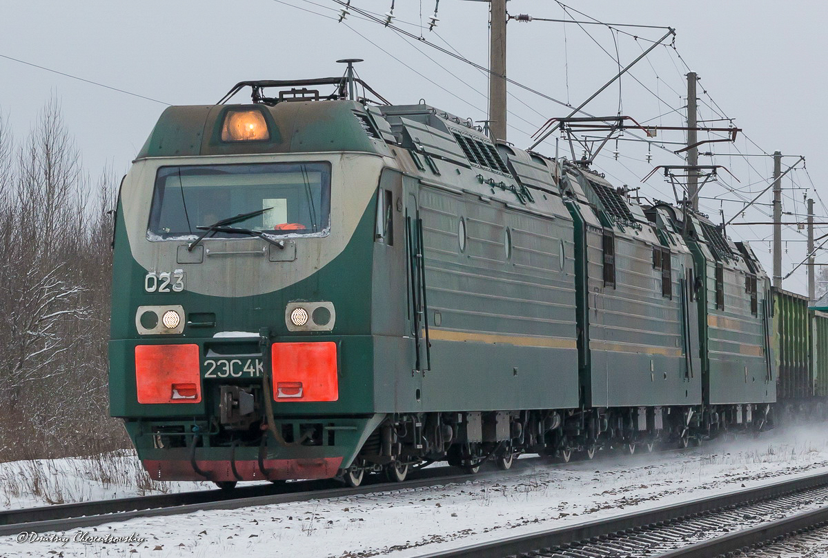 Electric locomotive 2ES4K-023 with 3-section consist. Line Tsvylevo - Valya, Leningrad region, Russia